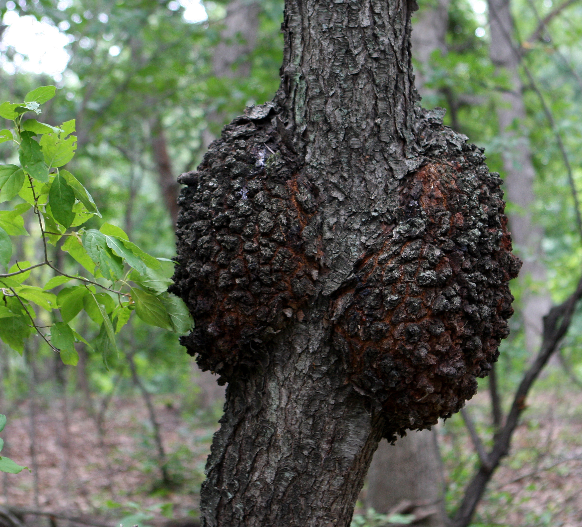 Black knot infection of Black Cherry.